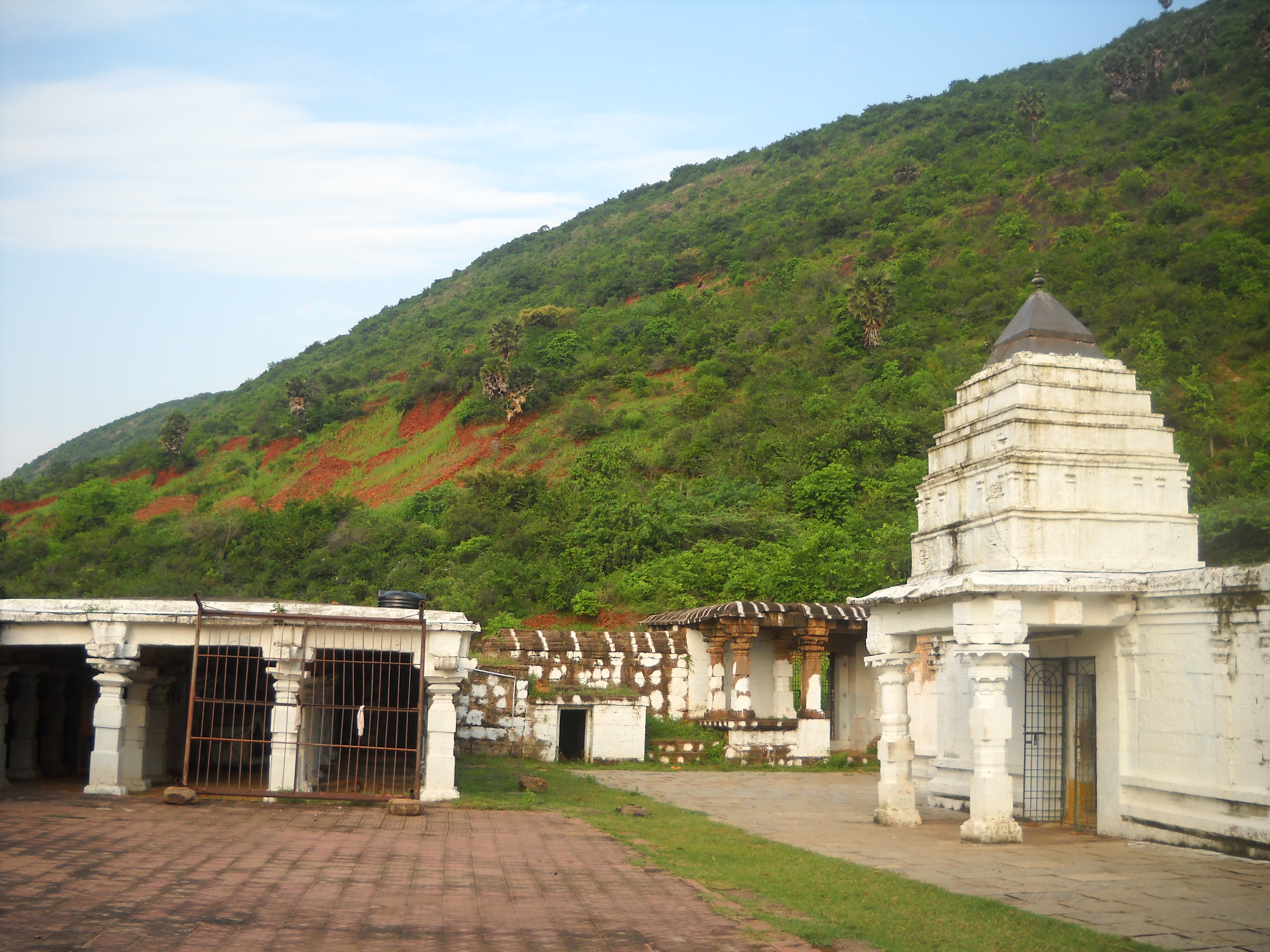 S-AP-456 Dharmalingeswara temple